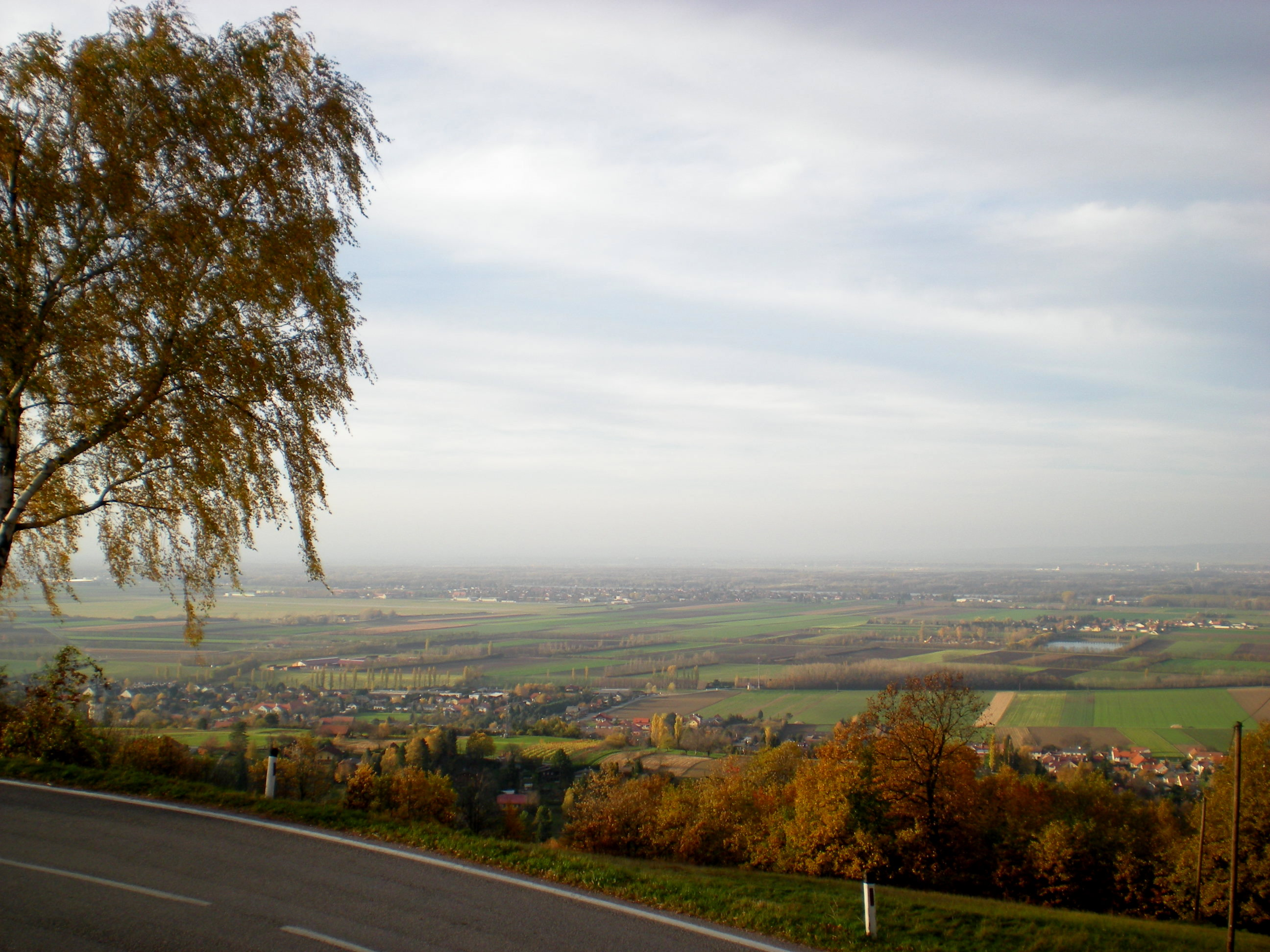 View of Tullnerfeld from Rieglerhütte near Königstetten, Lower Austria